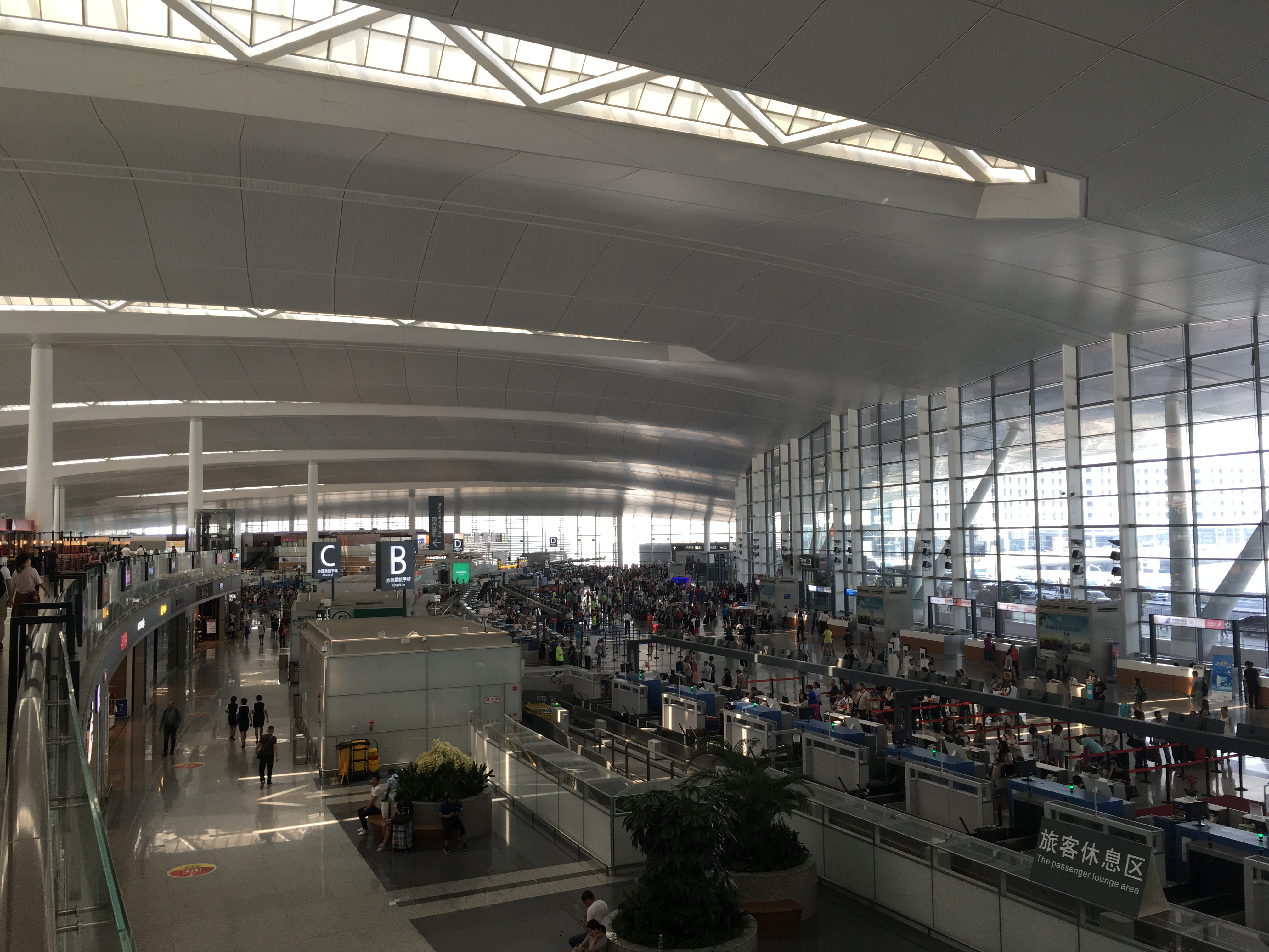 interior photo of NKG T2